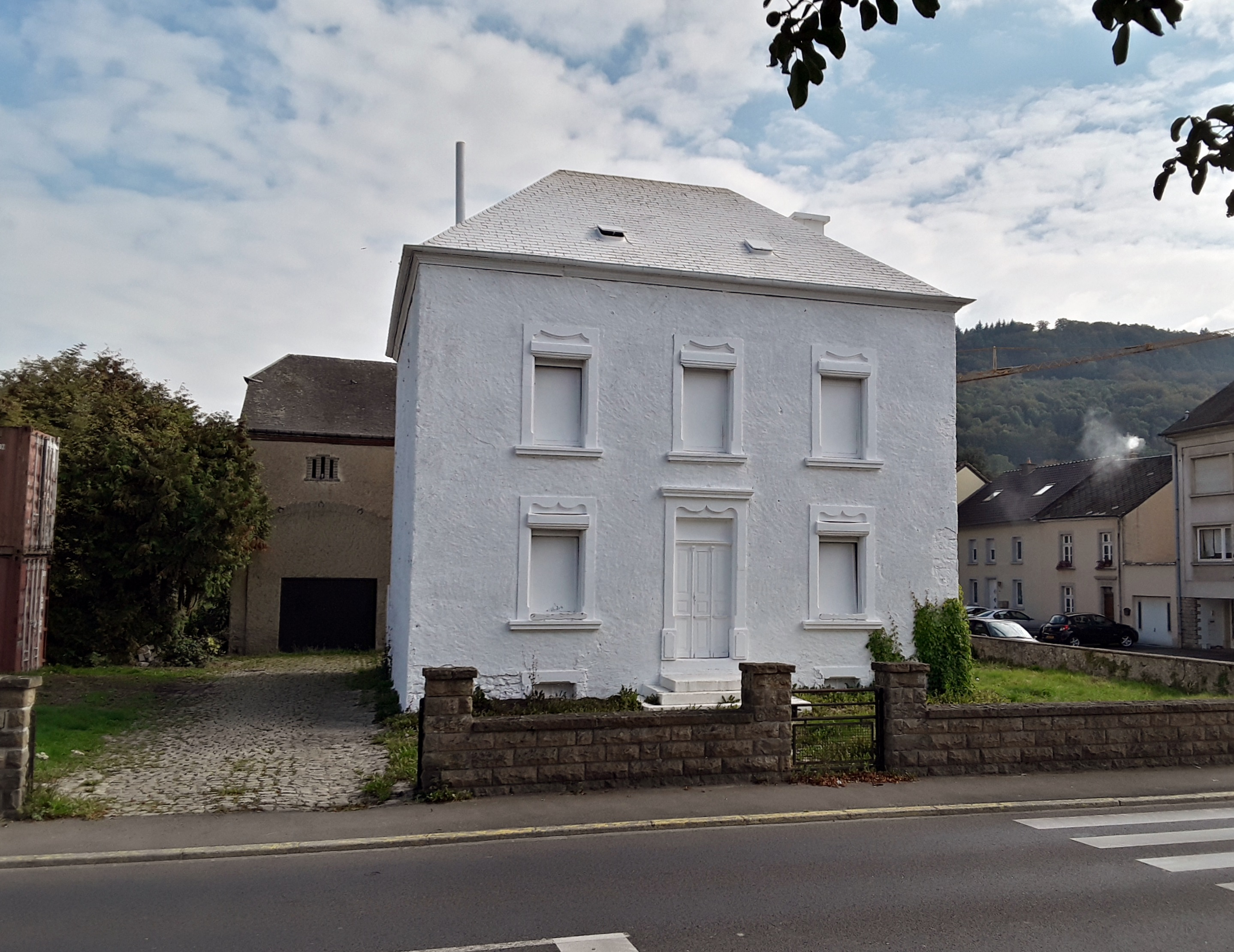 Two storey house completely painted white before it will be demolished. Art exhibition initiated by Joël Rollinger (“Temporary Art Gallery”).